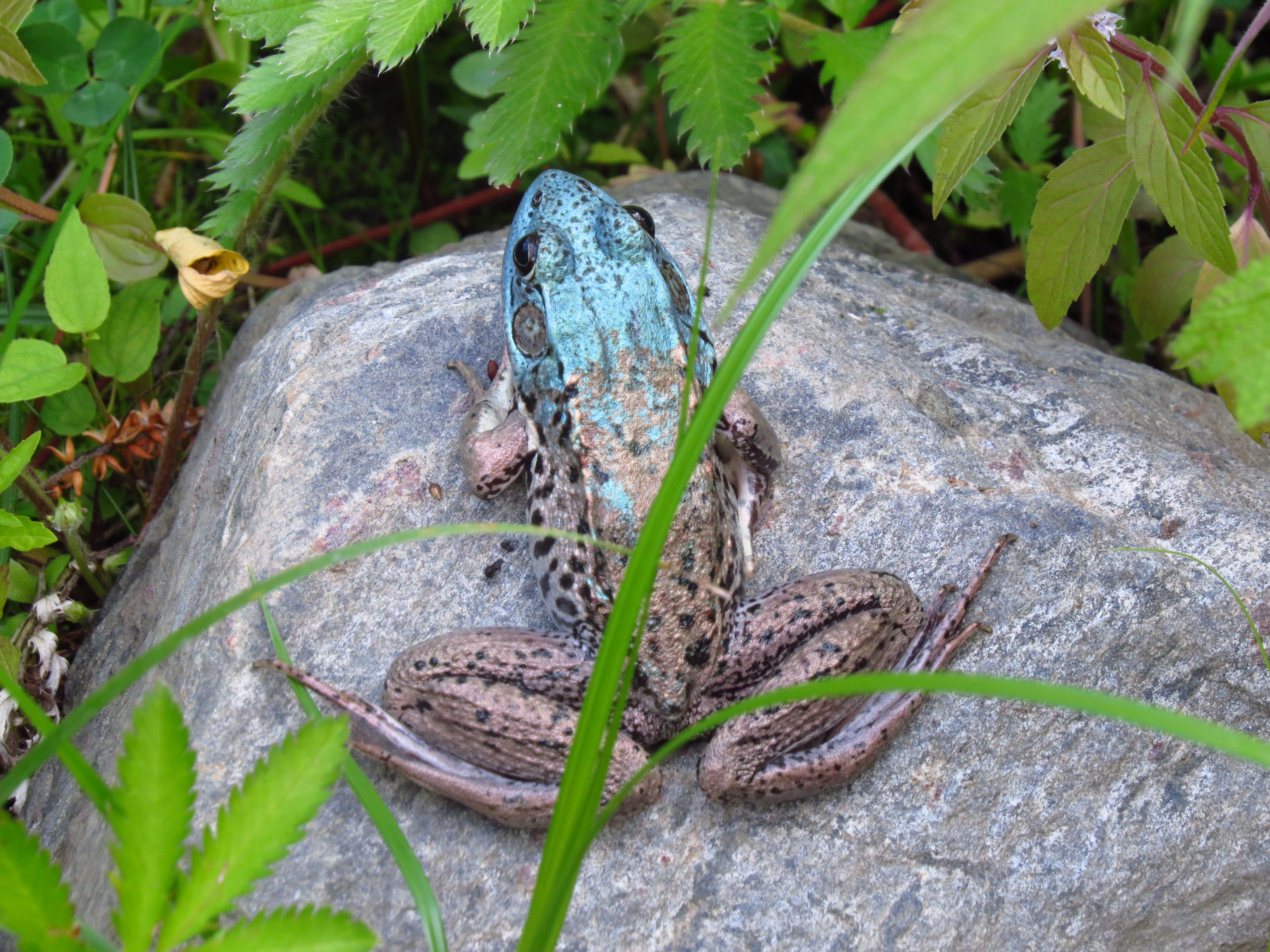 Northern green frog (Lithobates clamitans melanota), blue morph, Fletcher Wildlife Garden, Ottawa, Ontario, Canada